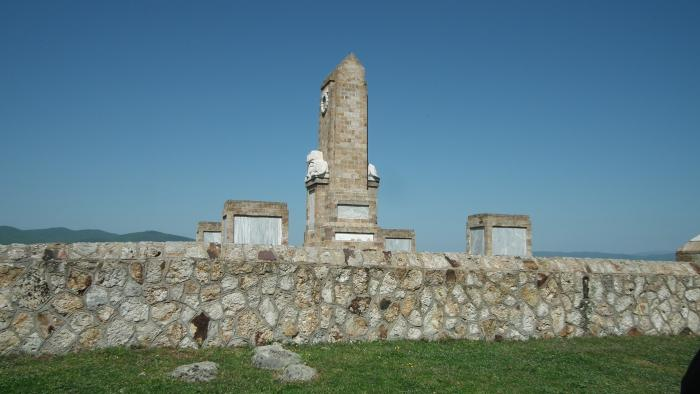 Doiran Memorial, near Doiran Military Cemetery, which is situated near the former town of Doirani in the north of Greece close to the Macedonia border and near the south-east shore of Lake Doiran.